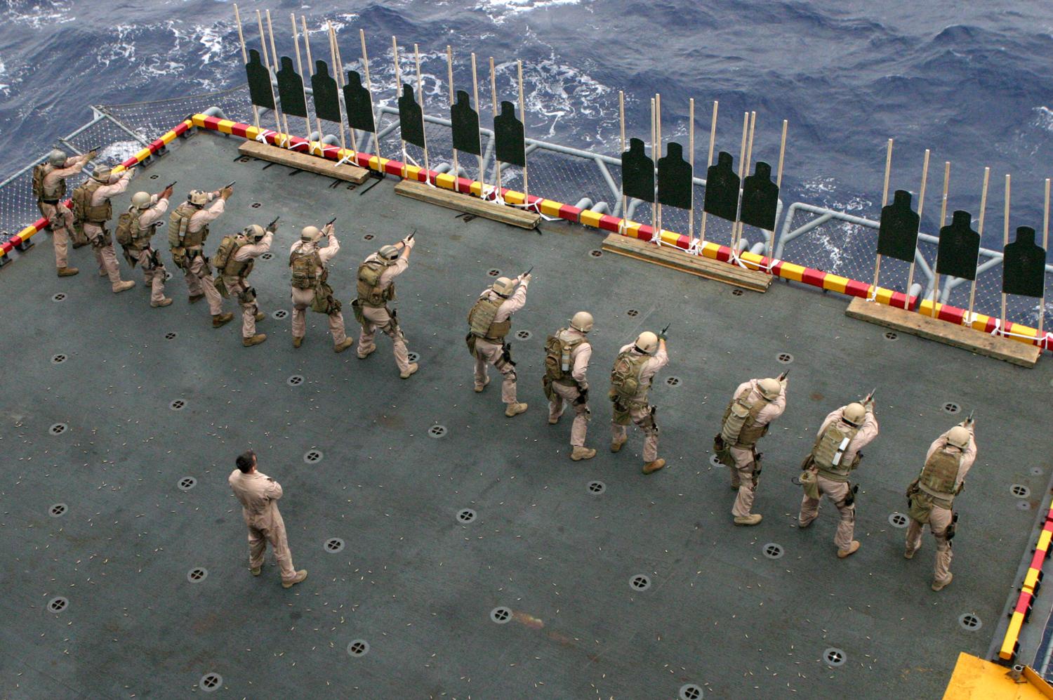 Force Recon platoon conduct close quarter combat training while on deployment.